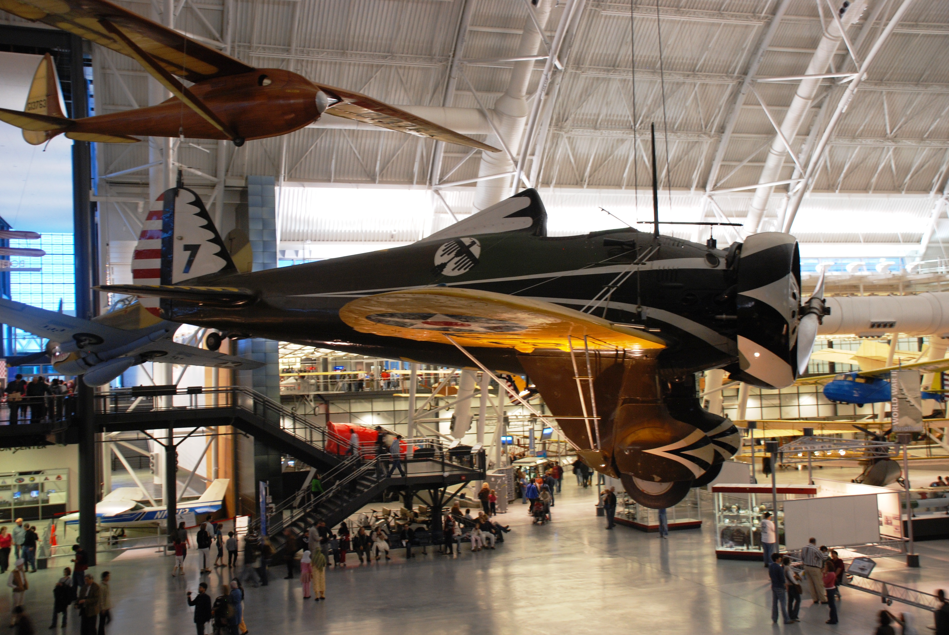 Boeing P-26A Peashooter in the markings of the 34th Pursuit Squadron at the National Air and Space Museum, Steven F. Udvar-Hazy Center, Washington DC The American Boeing P-26, nicknamed the "Peashooter", was the first all-metal production fighter aircraft and the first pursuit monoplane used by the United States Army Air Corps. The prototype first flew in 1932, and were used by the Air Corps as late as 1941 in the Philippines. Manufacturer: Boeing Aircraft Co. Date: 1934 Country of Origin: United States of America Dimensions: Wingspan: 8.5 m (27 ft 11 in) Length: 7.3 m (23 ft 11 in) Height: 3.1 m (10 ft 2 in) Weight, empty: 996 kg (2,196 lb) Weight, gross: 1,334 kg (2,935 lb) Top speed: 377 km/h (234 mph) Engine: Pratt & Whitney R-1340-27, 600 hp Armament: two .30 cal. M2 Browning aircraft machine guns